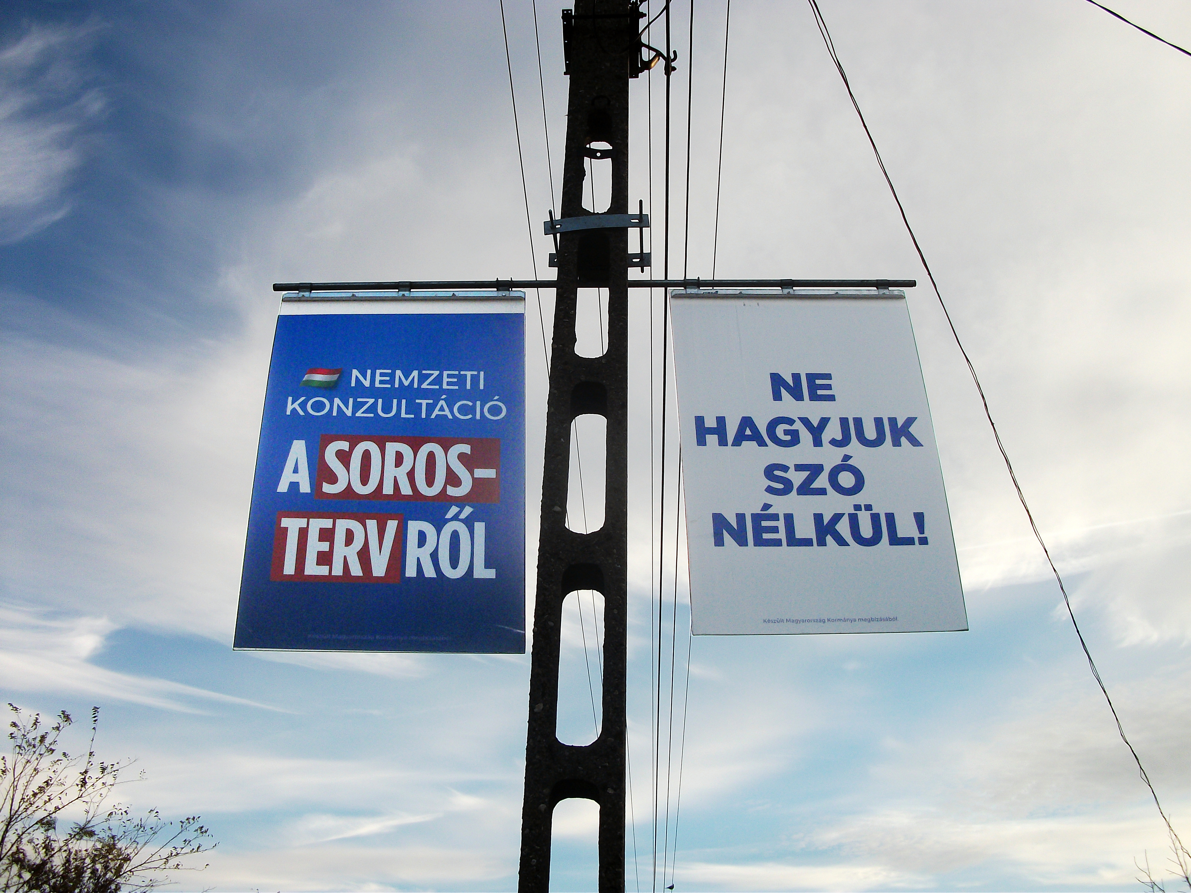 Billboards of national consultation on the Soros plan in Zichyújfalu, Fejér County, Hungary.